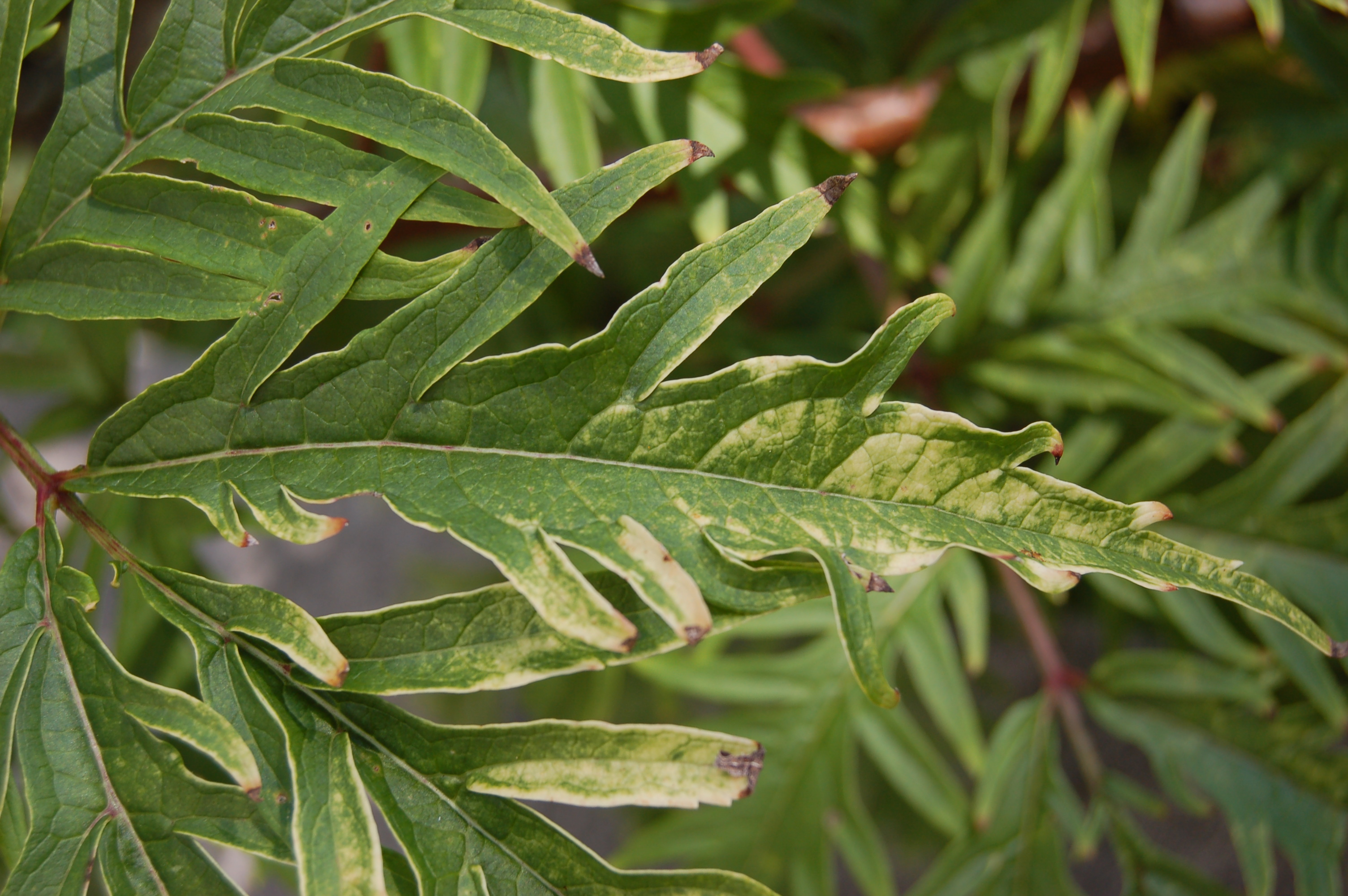 A picture of a leaf closeup of the Cutleaf Red Elderberry (Sambucus racemosa en 'Sutherland Gold'). Photo taken at the Chanticleer Garden where it was identified.